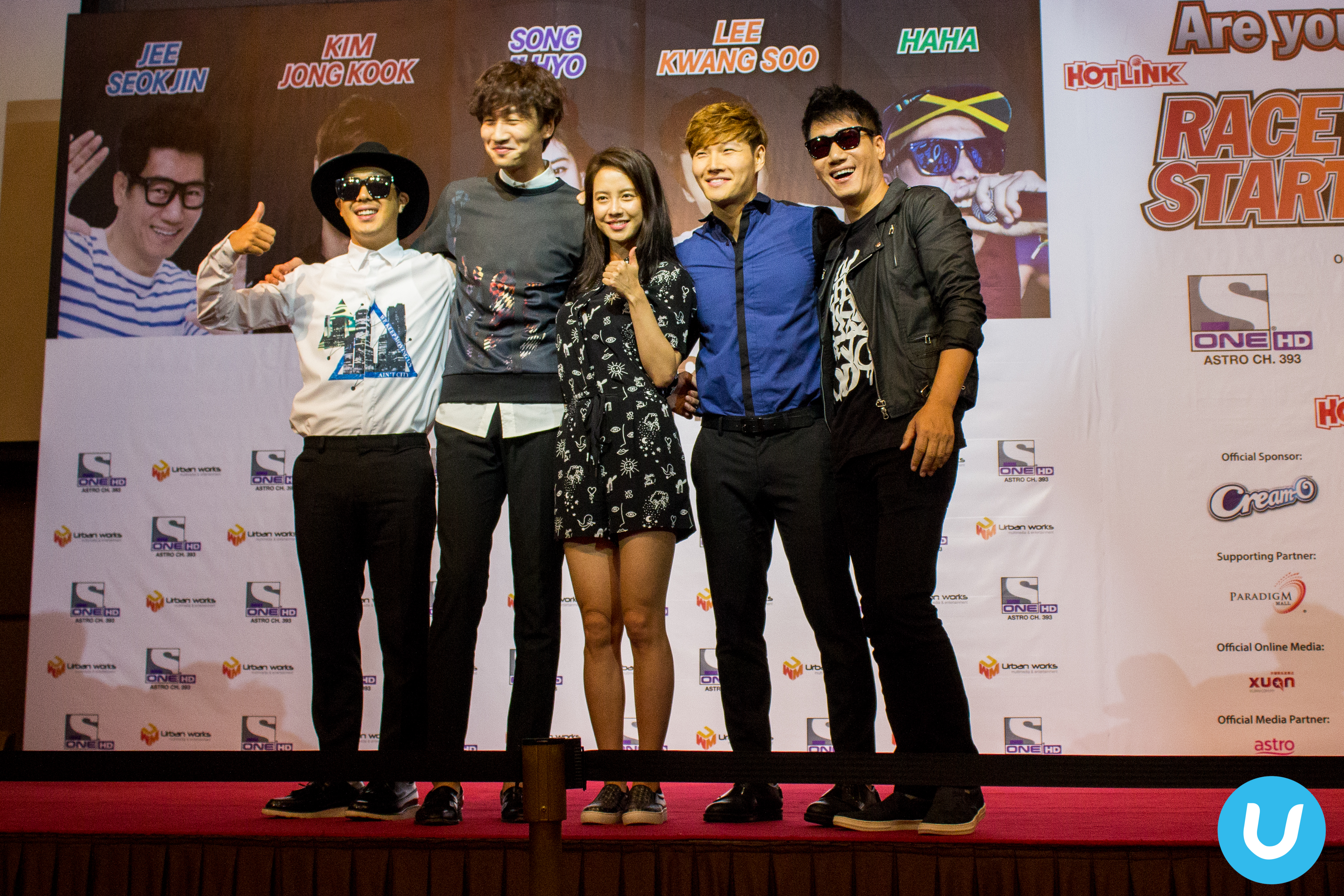 Running Man Cast at Malaysia for Fan Meeting Asia Tour 2014